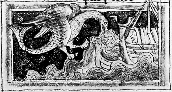 A dragon-like sawfish with webbed feet and the requisite enormous wings attacks a ship from Bestiaire of Guillaume le Clerc (Bibliothèque Nationale de France, fr. 14969)